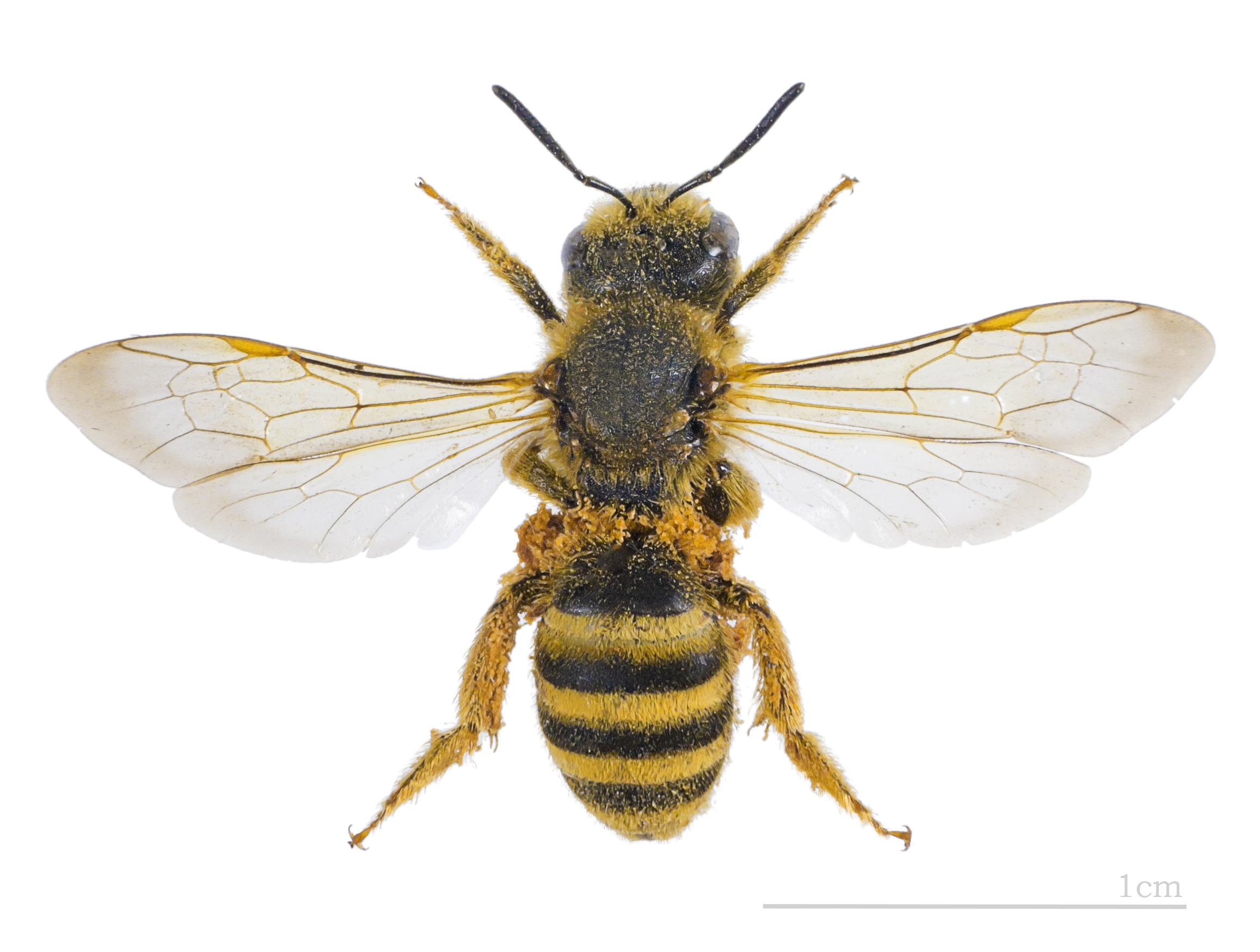 Female - Dorsal side Locality: Maourine pond, Toulouse, France